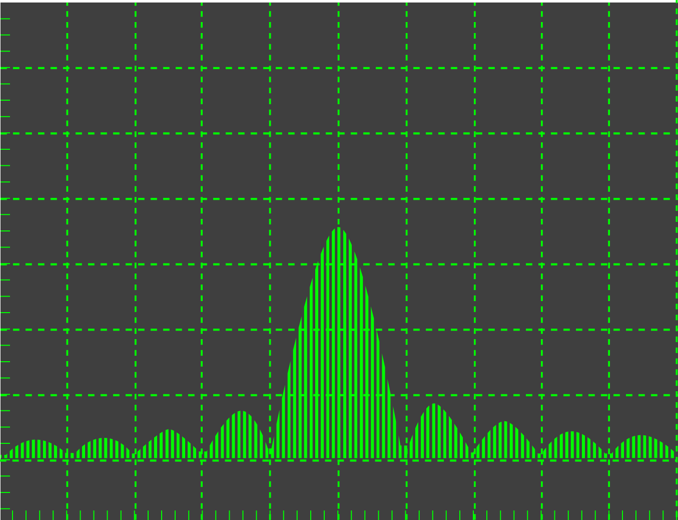 This is the spectrum of a typical radar signal with a square pulse profile. It shows the Coarse Spectrum, eg the full bandwidth of the spectrum may be seen as a series of lobes (after TJC - English WP).